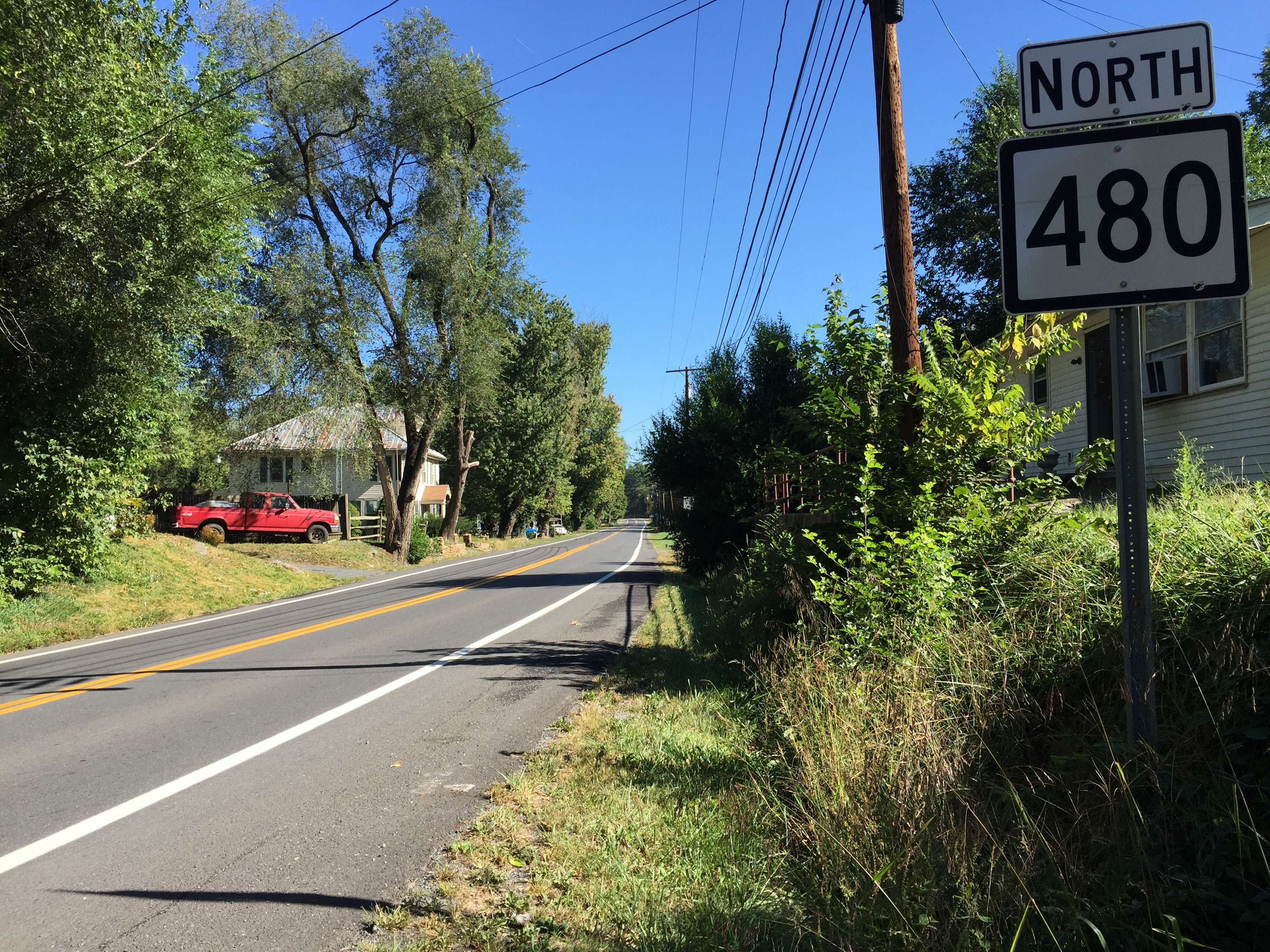 View north along West Virginia State Route 480 (Kearneysville Pike) at Stubbs Road (Jefferson County Route 48/3) in Kearneysville, Jefferson County, West Virginia